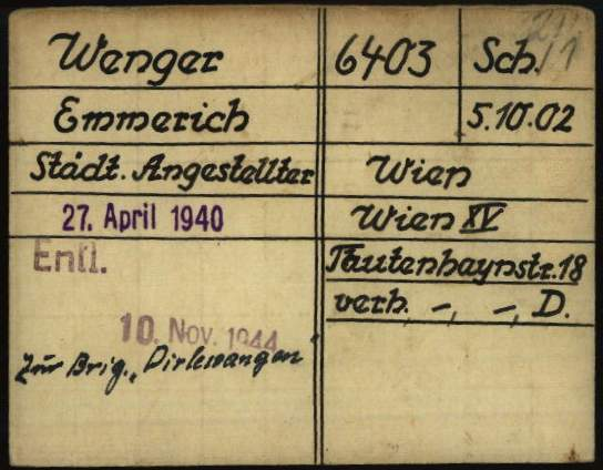 Registration card of Emmerich Wenger as a prisoner at Dachau Nazi Concentration Camp. Footnote (bottom left) indicates Wenger's transfer to so-called "Dirlewanger Brigade" (SS-Sturmbrigade Dirlewanger), a penal unit.